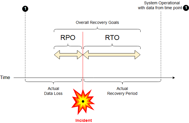 Graphic representation of RPO and RTO in case of an incident. Converted from File:RPO RTO example.svg.